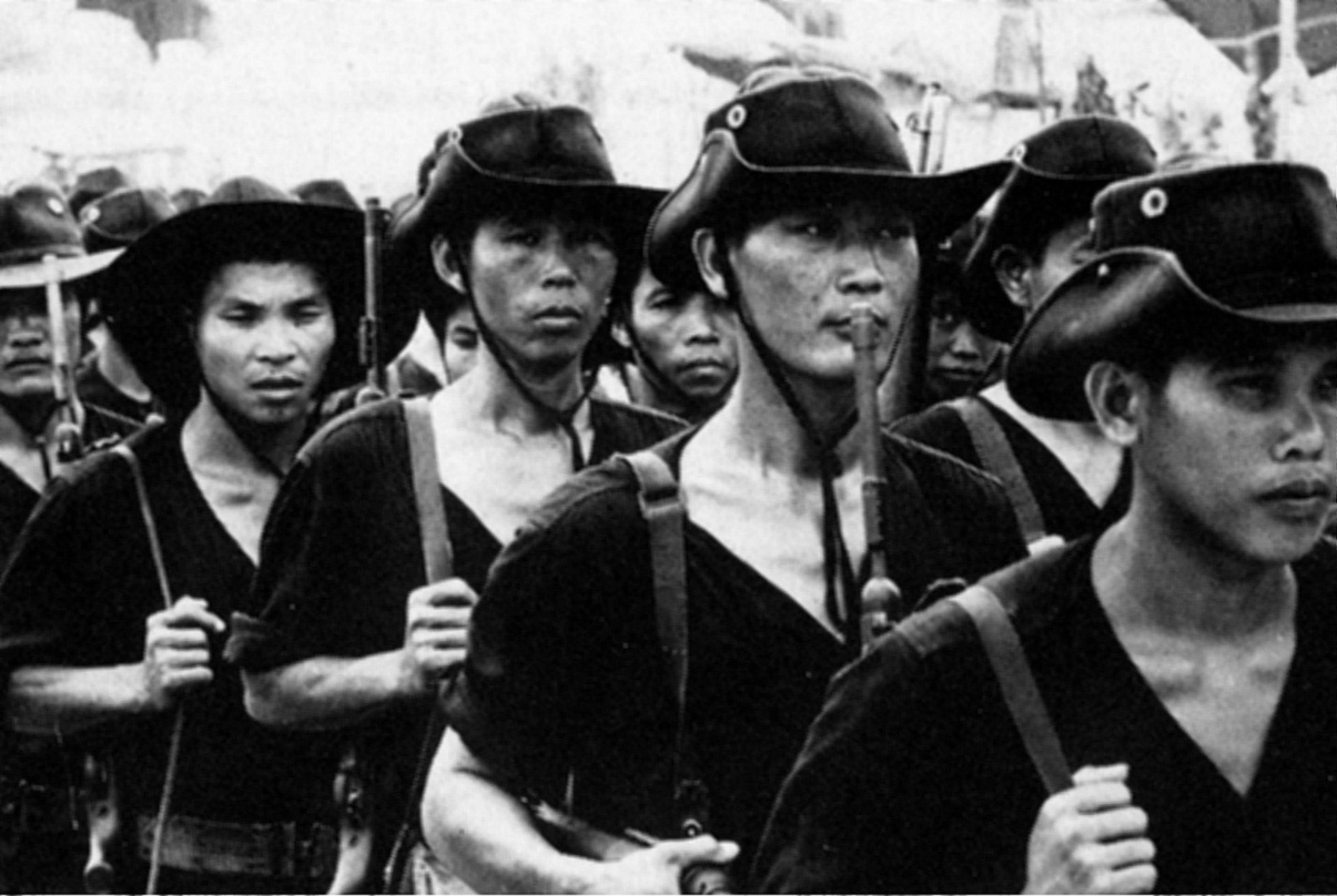 These young men, from all of South Vietnam's 44 provinces, will return to their native villages after 13 weeks' training at the National Training Center. Their job: To help villagers help themselves. ID #541858